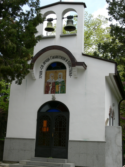 A chapel in the Ayazmoto Park, Stara Zagora, Bulgaria.